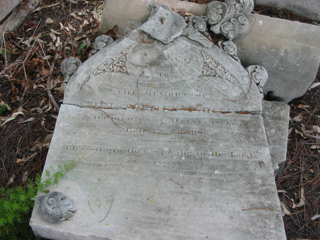 Damaged headstone for Christopher Porter, Tingalpa Anglian Cemetery, 2005